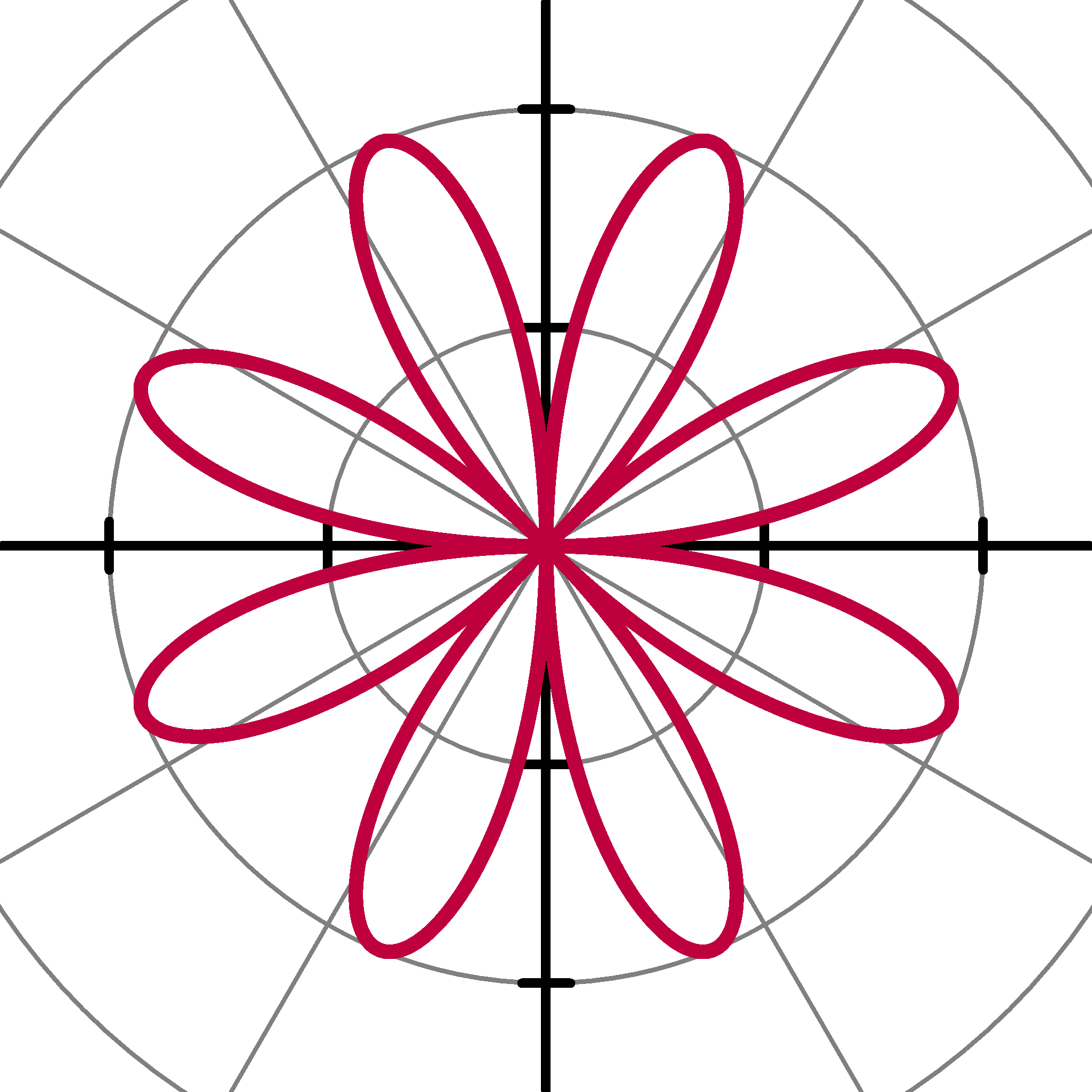 Summary A polar rose with equation r=2sin(4θ) Category:Images of curves